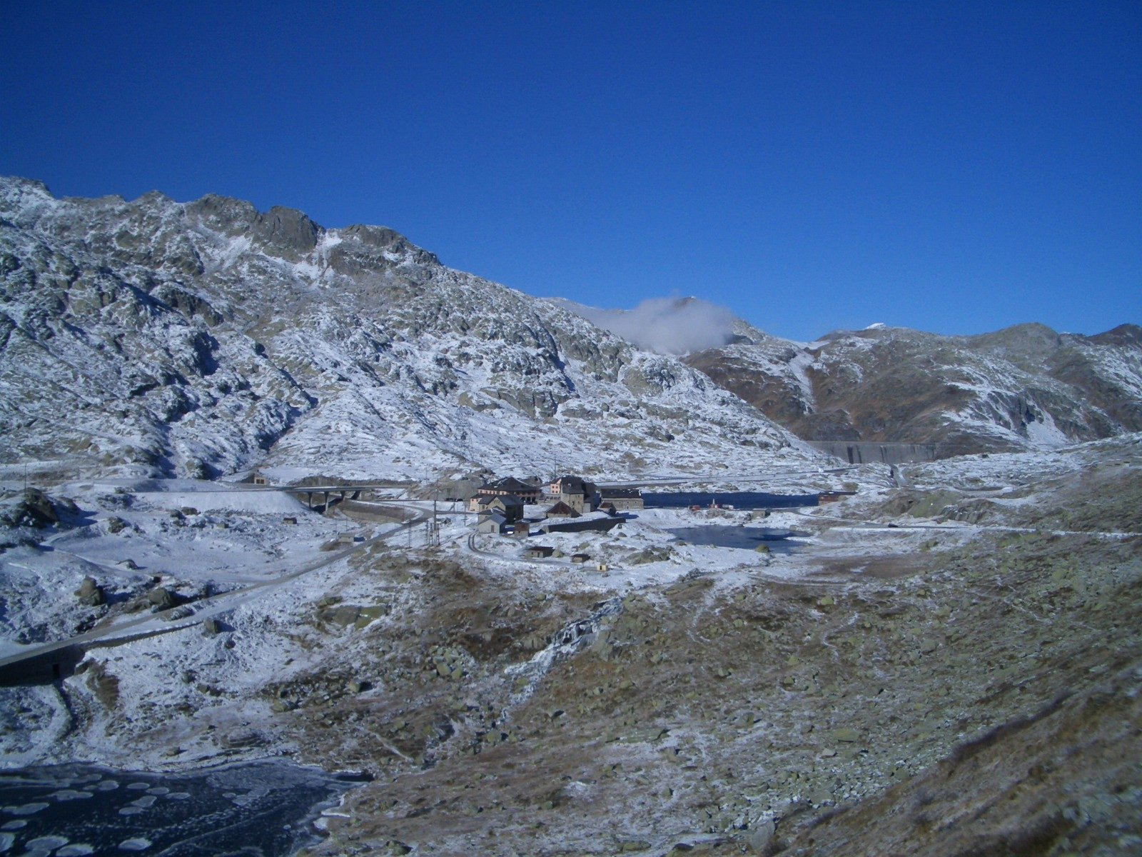 St. Gotthard mountain pass hospiz with the Lucendro dam in the background, Switzerland